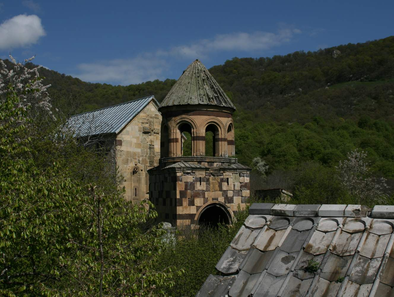 Gudarekhi monastery. An inscription on the southern wall [close up]